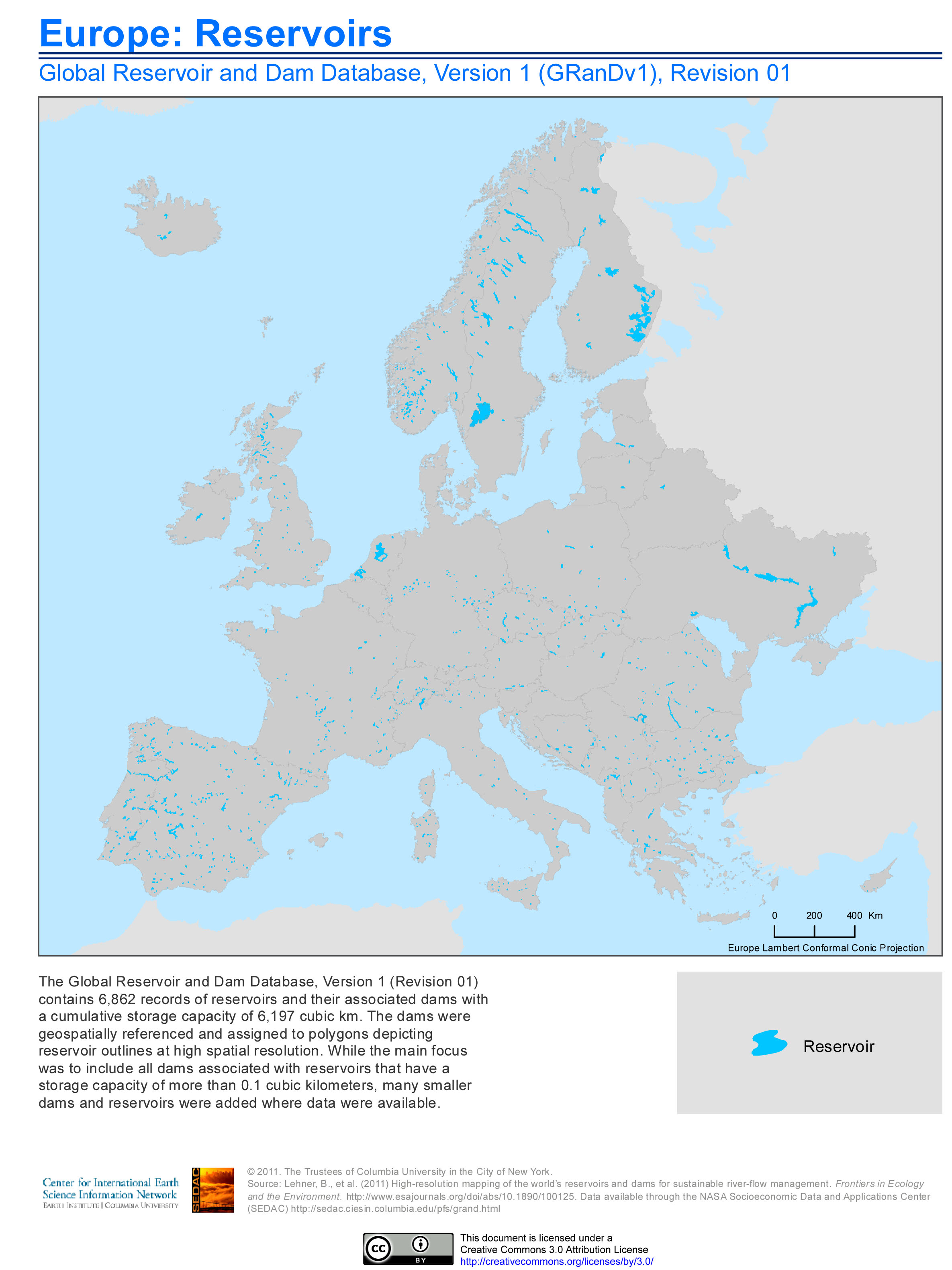 The Global Reservoir and Dam (GRanD) Database, Version 1.1 contains 6,862 records of reservoirs and their associated dams with a cumulative storage capacity of 6,197 cubic km. The reservoirs were delineated from high spatial resolution satellite imagery and are available as polygon shape files. The only attribute for the reservoirs is the area of the reservoir. The associated dams data set includes multiple attributes such as name of the dam and the impounded river, primary use, nearest city, area, and year of construction (or commissioning). While the main focus was to include all reservoirs with a storage capacity of more than 0.1 cubic kilometers, many smaller reservoirs were added where data were available.